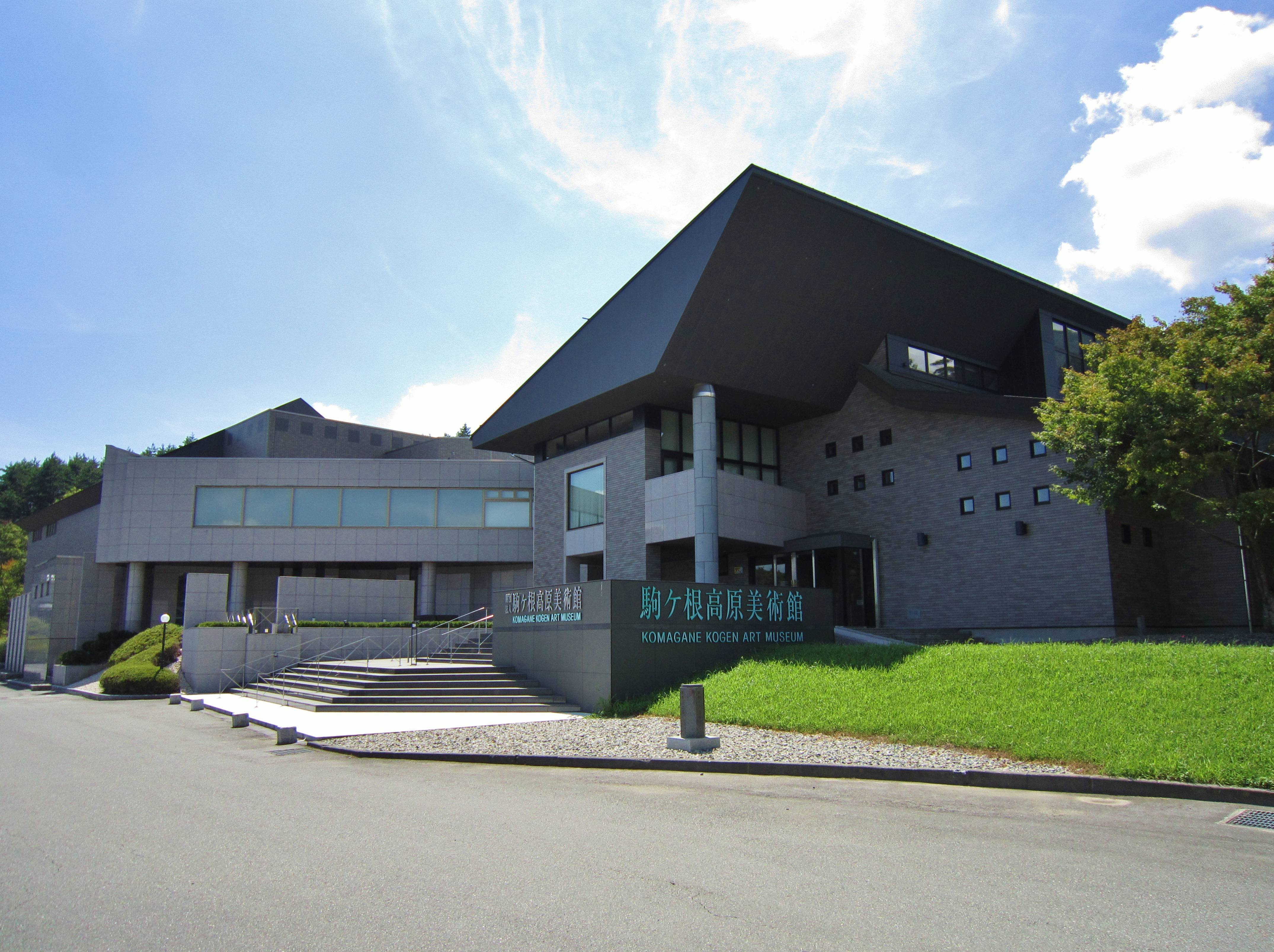 Komagane Kogen Art Museum.